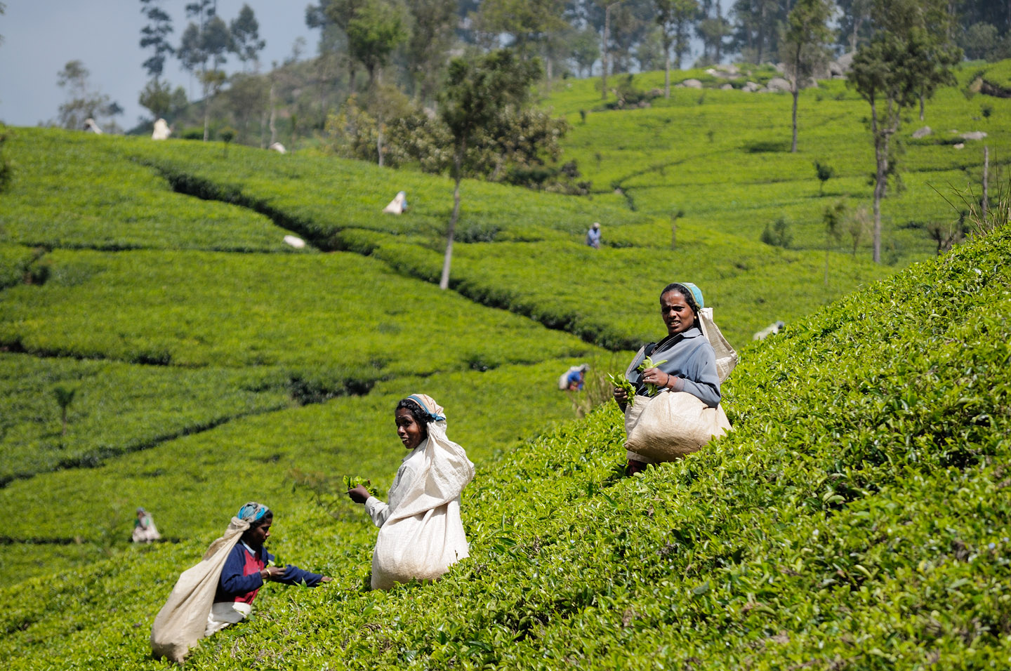 Women picking tea leaves in a plantation of central Sri Lanka